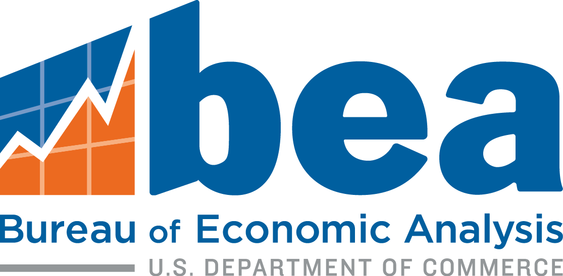 Logo of the United States Bureau of Economic Analysis, a part of the Department of Commerce.